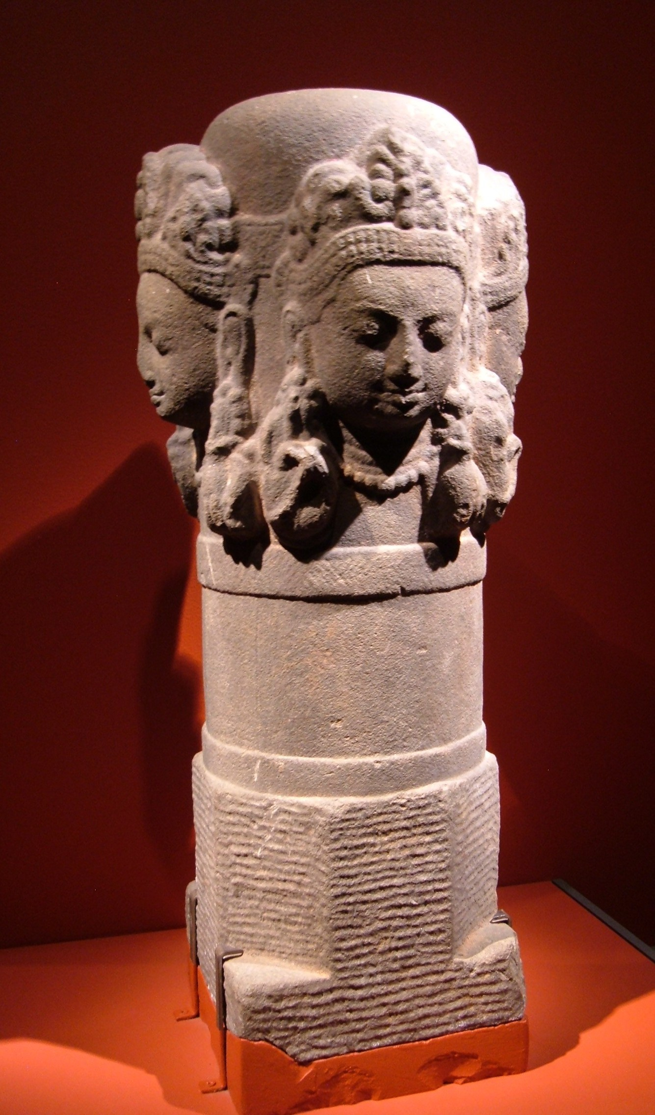 Nepalese stone linga (900-1000) on display at the Asian Art Museum in San Francisco, California. Object ID: B87S7